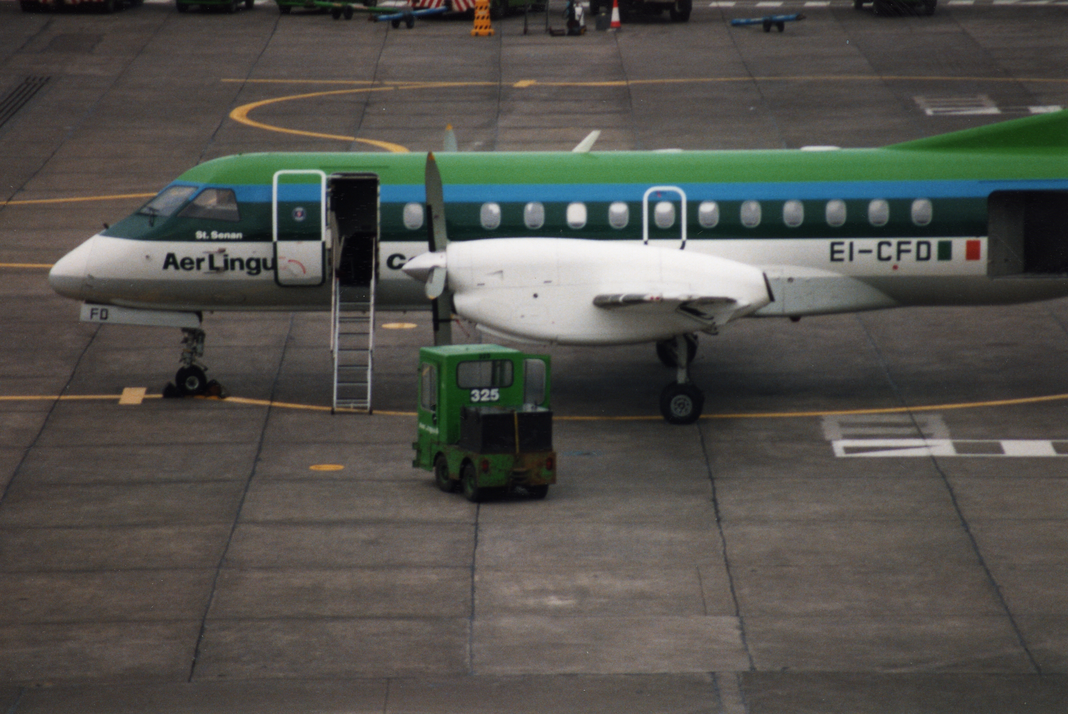 Aer Lingus (EI-CFD) Saab 340 aircraft, Dublin Airport, Dublin, Republic of Ireland, February 1993